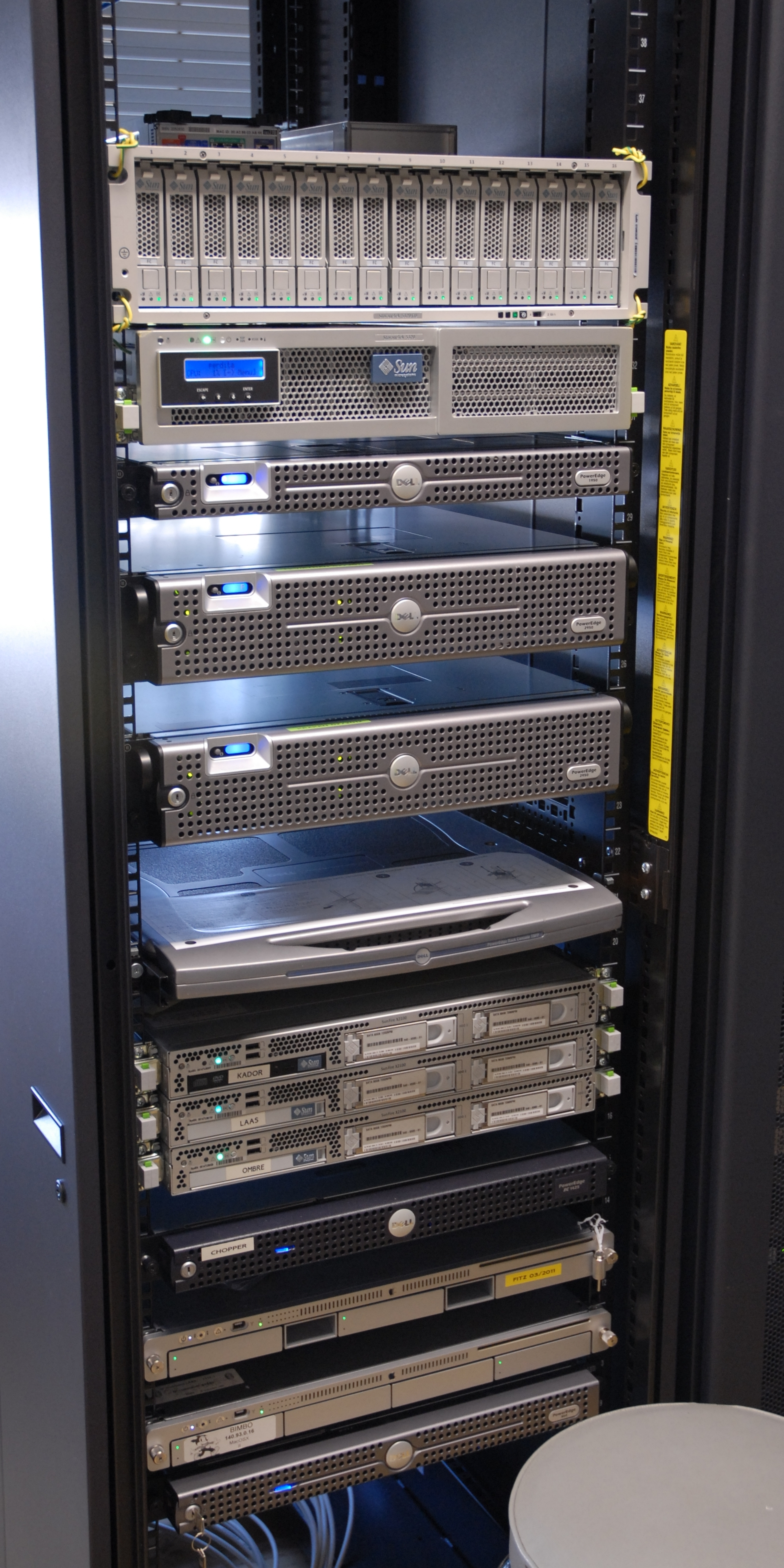 Servers at LAAS-CNRS in Toulouse, France.